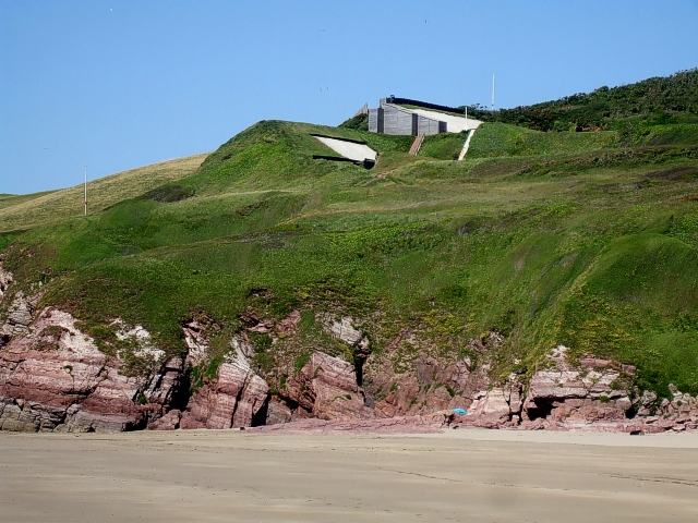 Rifle Butts, Tregantle, Cornwall. The Army still has a presence at the Victorian Tregantle Fort above Long Sands, Whitsand Bay. The forts along this coast were decreed by Lord Palmerston to deter the French from invading or attacking naval bases such as nearby Plymouth. Tregantle Fort was completed in 1859 or 1860. These Rifle Butts seen from the sands are one of several used for target practice. When such shooting is taking place this area of the beach is off limits, and red flags warn of the danger. The permissive path past one of the other ranges down to the beach is likewise closed, though the extensive sands running southeastwards towards Rame Head are always accessible as the Danger Area stops at Tregantle Cliff.